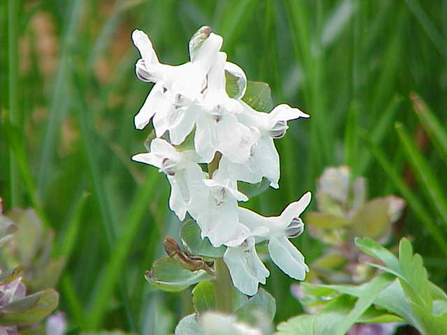 Species: Corydalis cava Family: ' Image No. 1